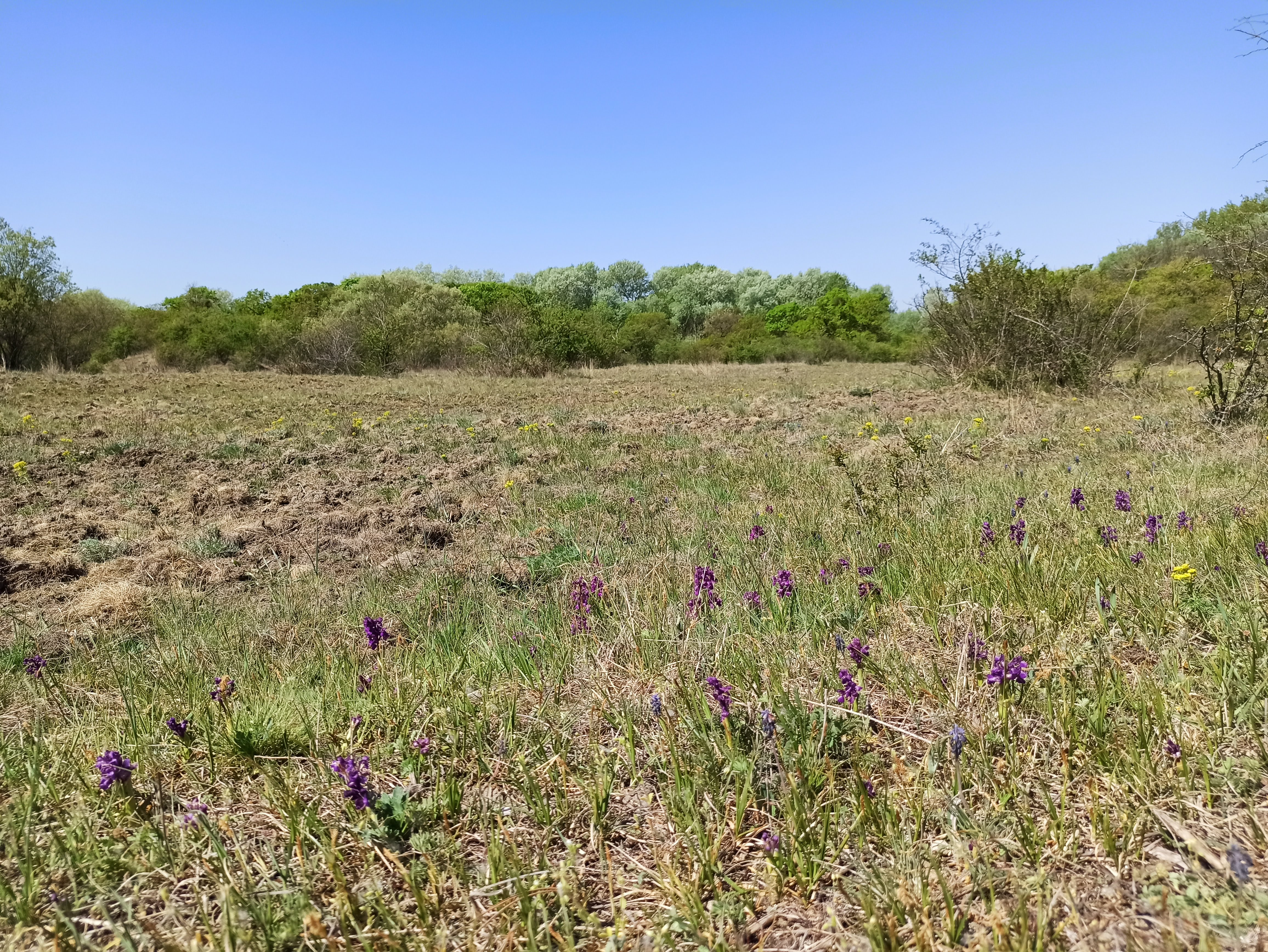 Kopacsky Ostrov in spring 2020 with flowering orchids